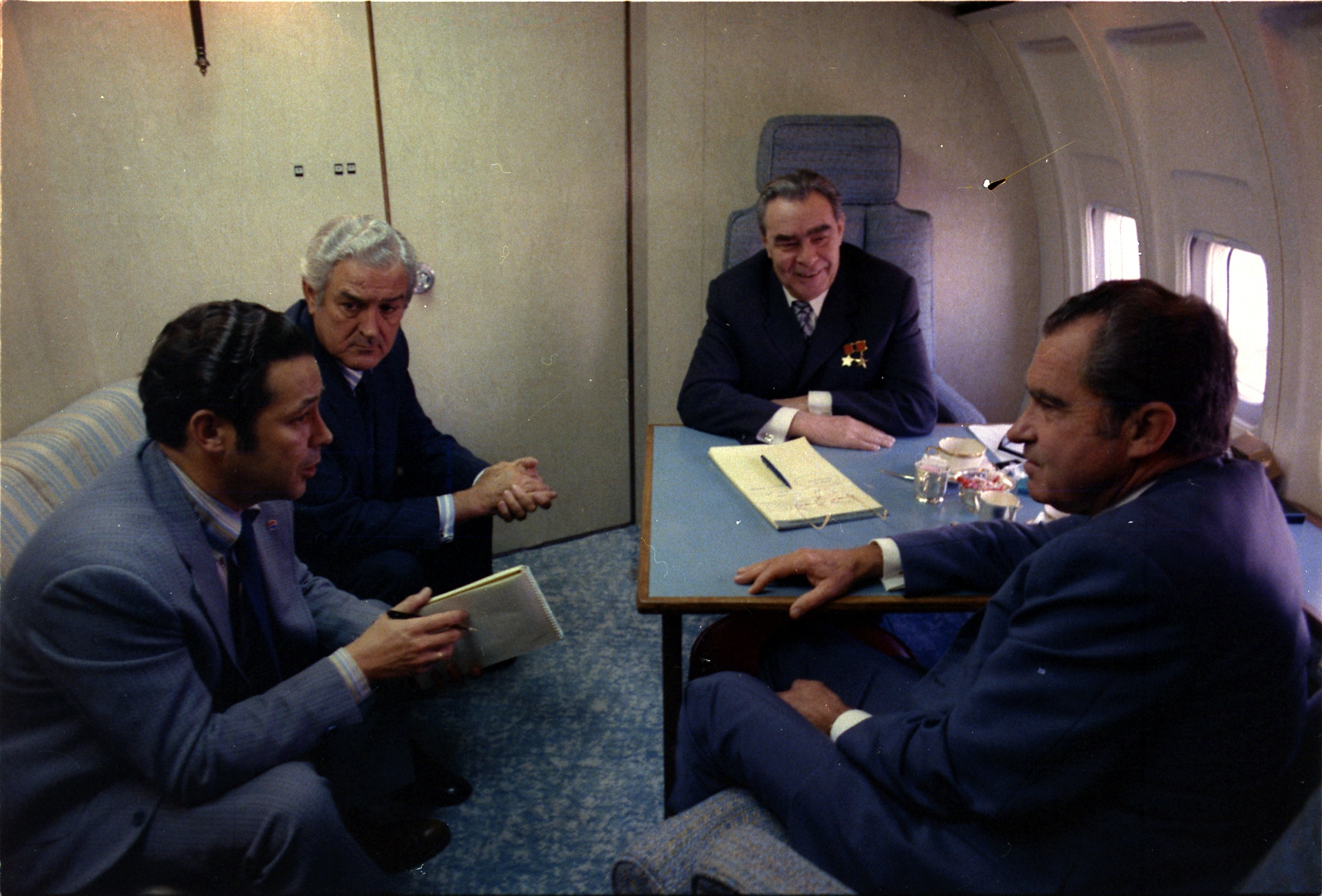 Scope and content: Pictured: Viktor M. Kukhodrev, John B. Connally, Leonid Brezhnev. Subject: Heads of State - U.S.S.R.